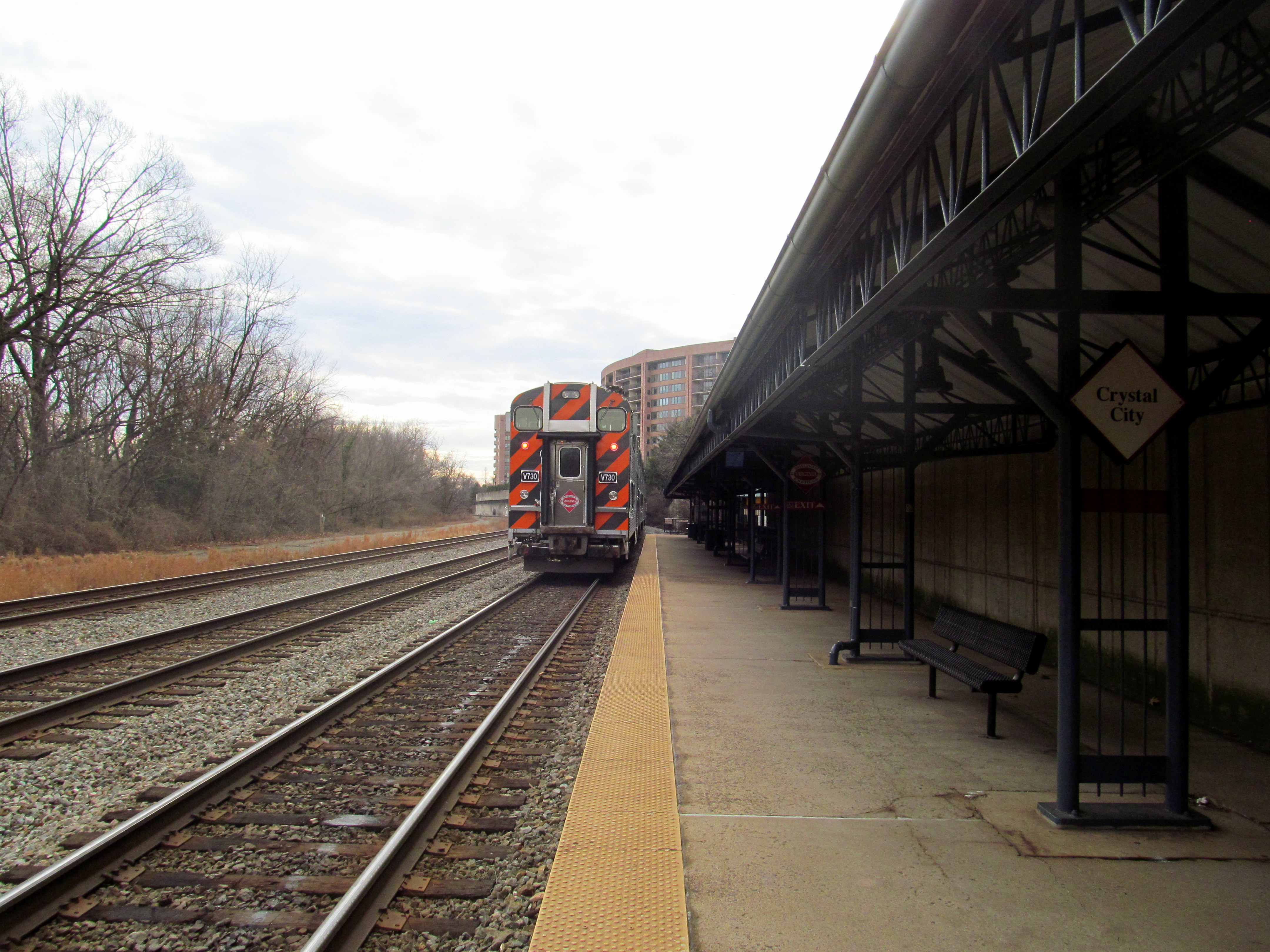 An outbound Manassas Line train leaves Crystal City station in January 2017